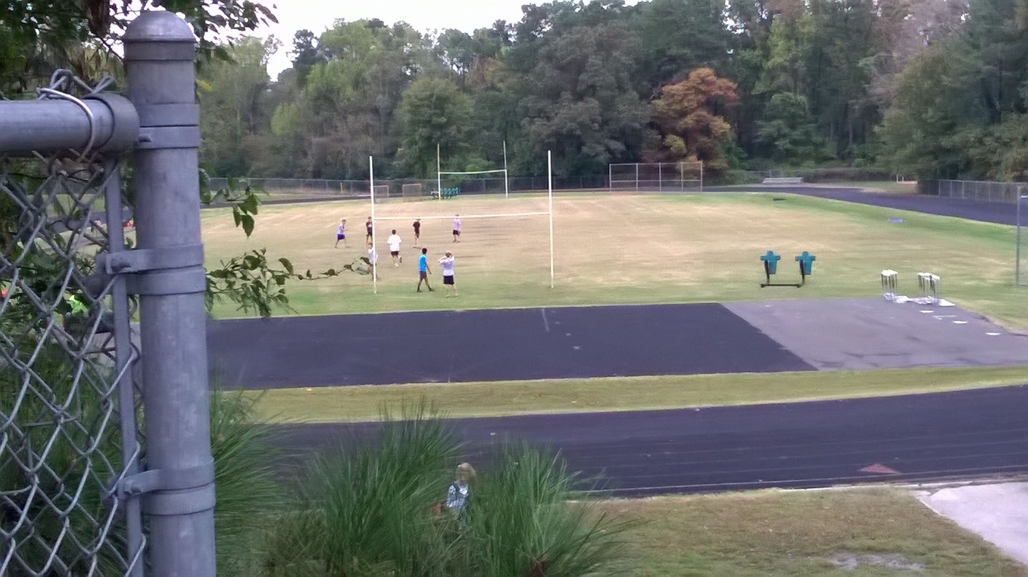 William G. Enloe High School track as seen from the East building